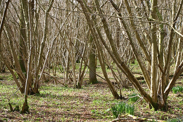 Out Wood Young trees in Out Wood in the spring sunshine.